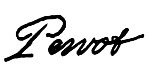 The signature of explorer, fur trader, and diplomat Nicolas Perrot (1644-1717).